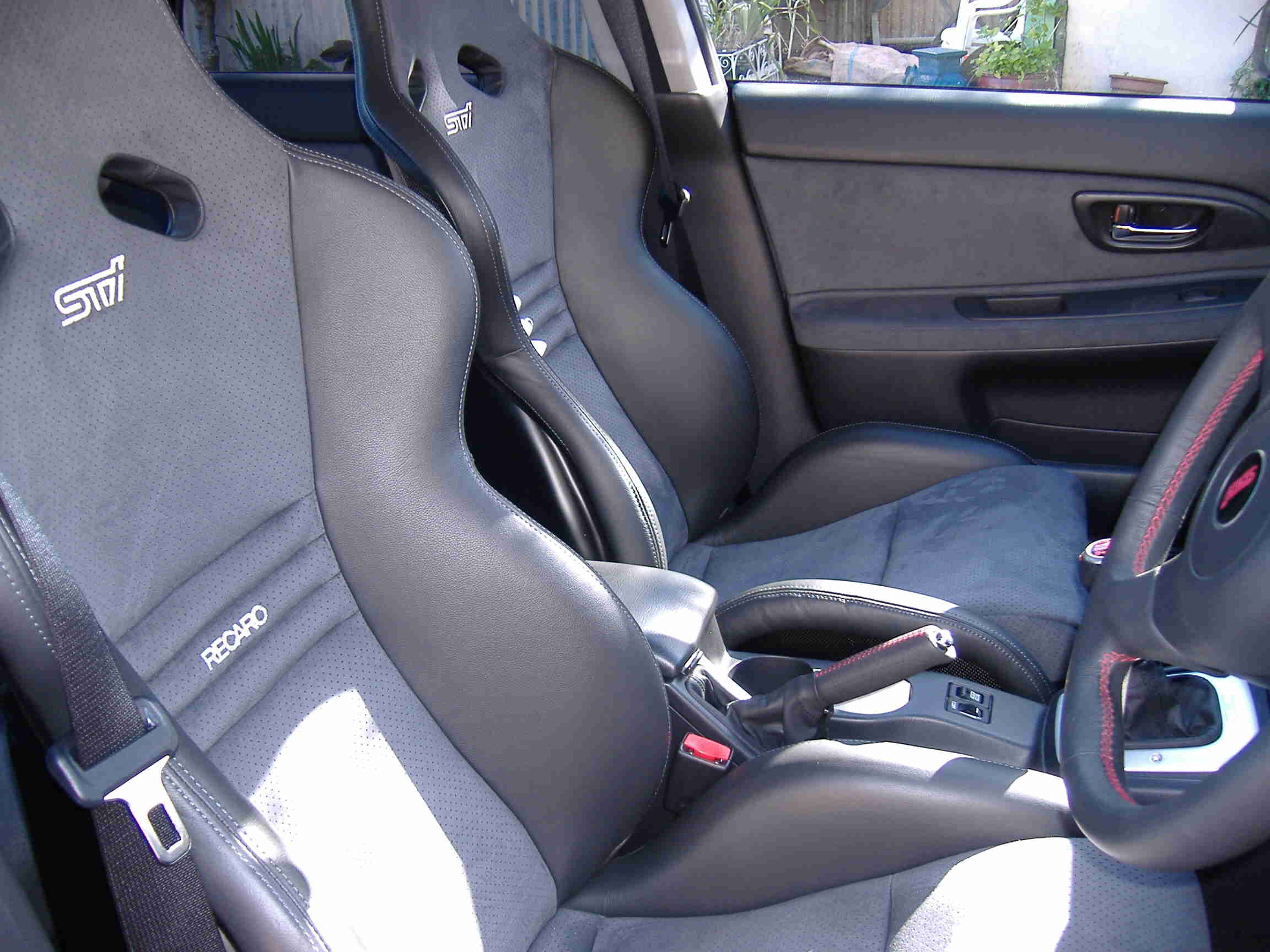 Internal View of Seats supplied with the Subaru WRX STi S204. Note high side bolsters for lateral force support